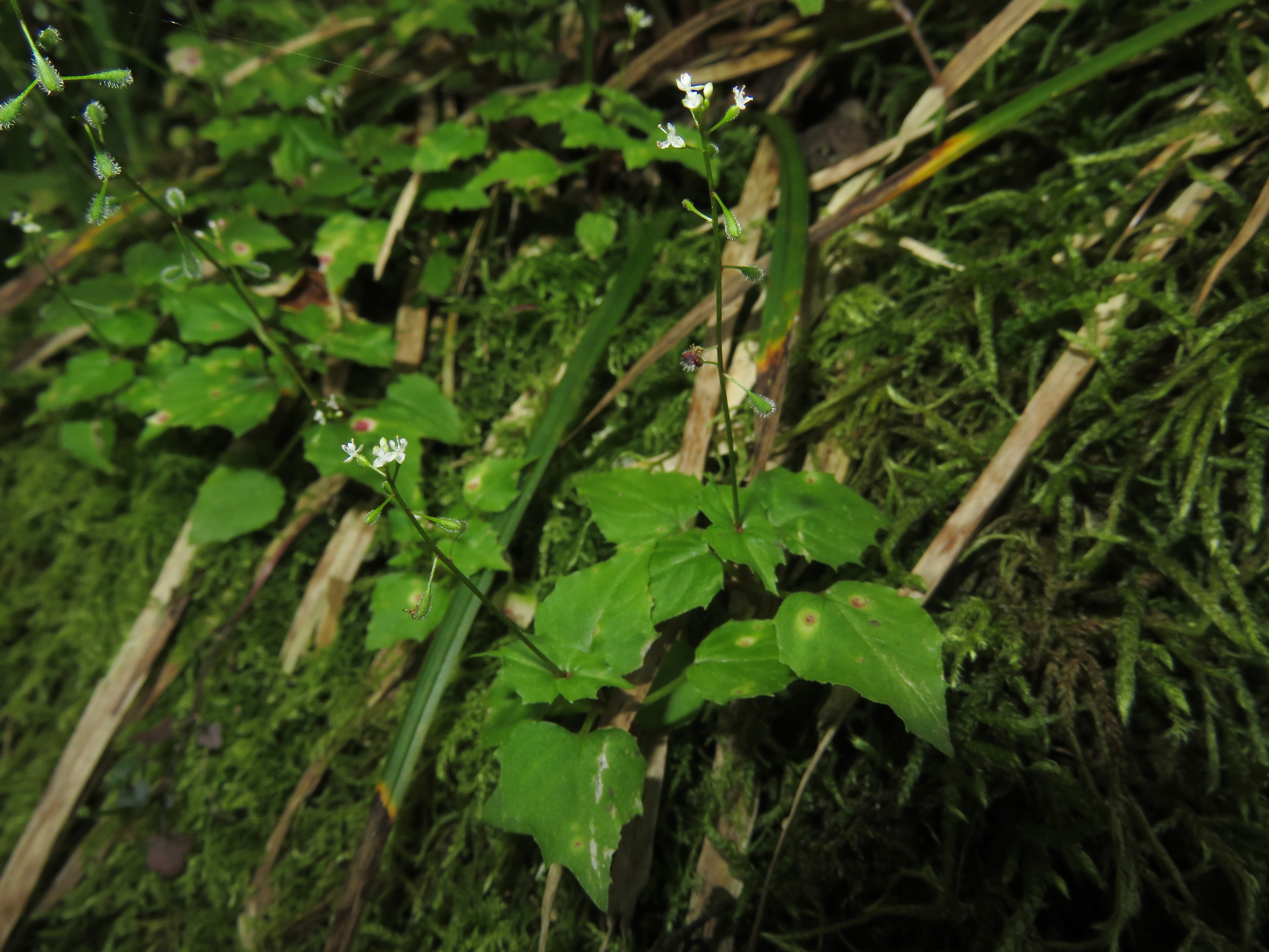 Circaea alpina, Mount Tashiro, Fukushima pref., Japan